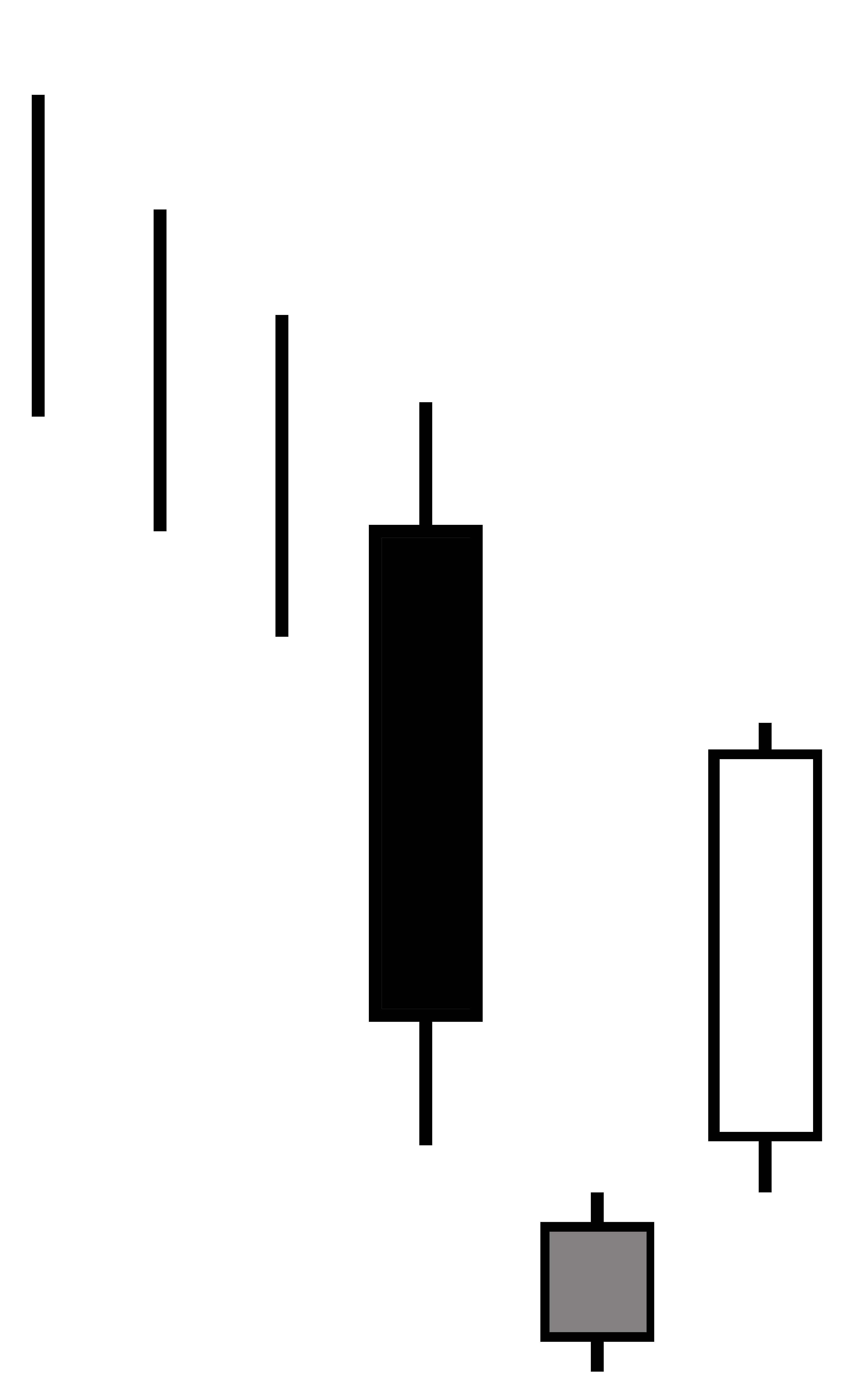 Bullish Morning Star